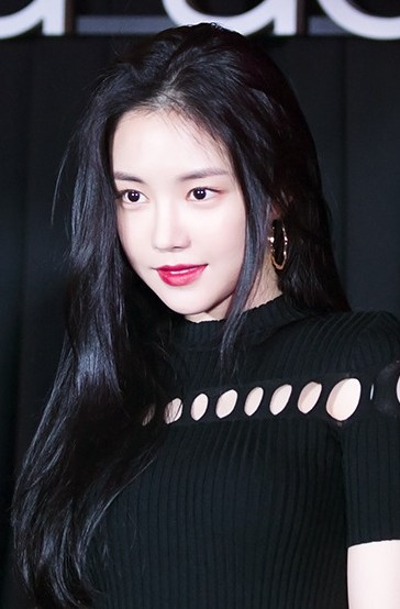 Son Na-eun at Shu Uemura party, 16 June 2018